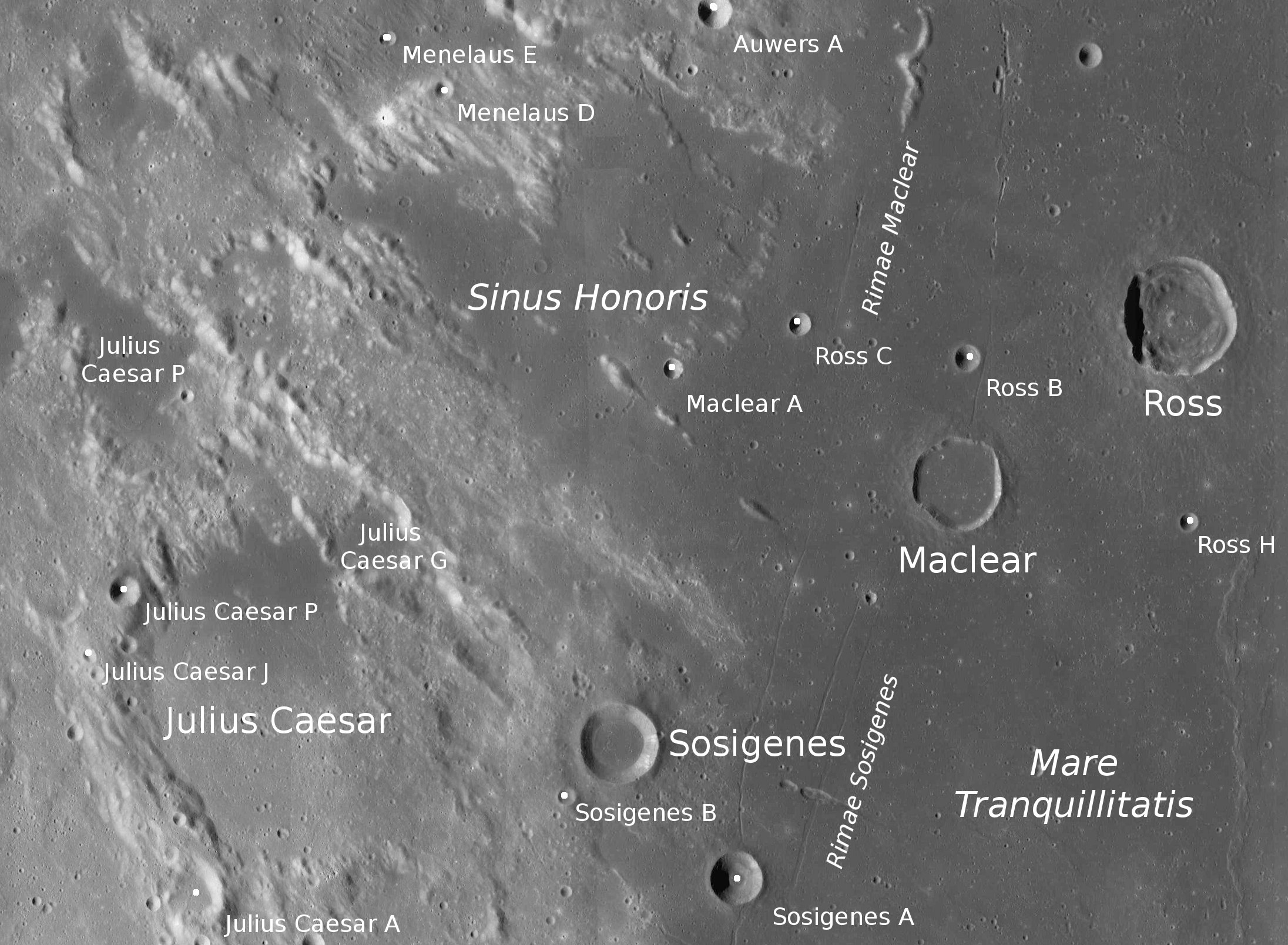 Sinus Honoris with craters Julius Caesar, Sosigenes, Maclear and Ross (detail of LRO - WAC global moon mosaic; Mercator projection)